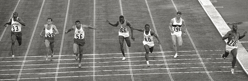 The American sprinter Robert Hayes winning the 100-metre dash in front of Enrique Figuerola and Henry Jerome at the Tokyo Olympics. Tokyo, October 1964